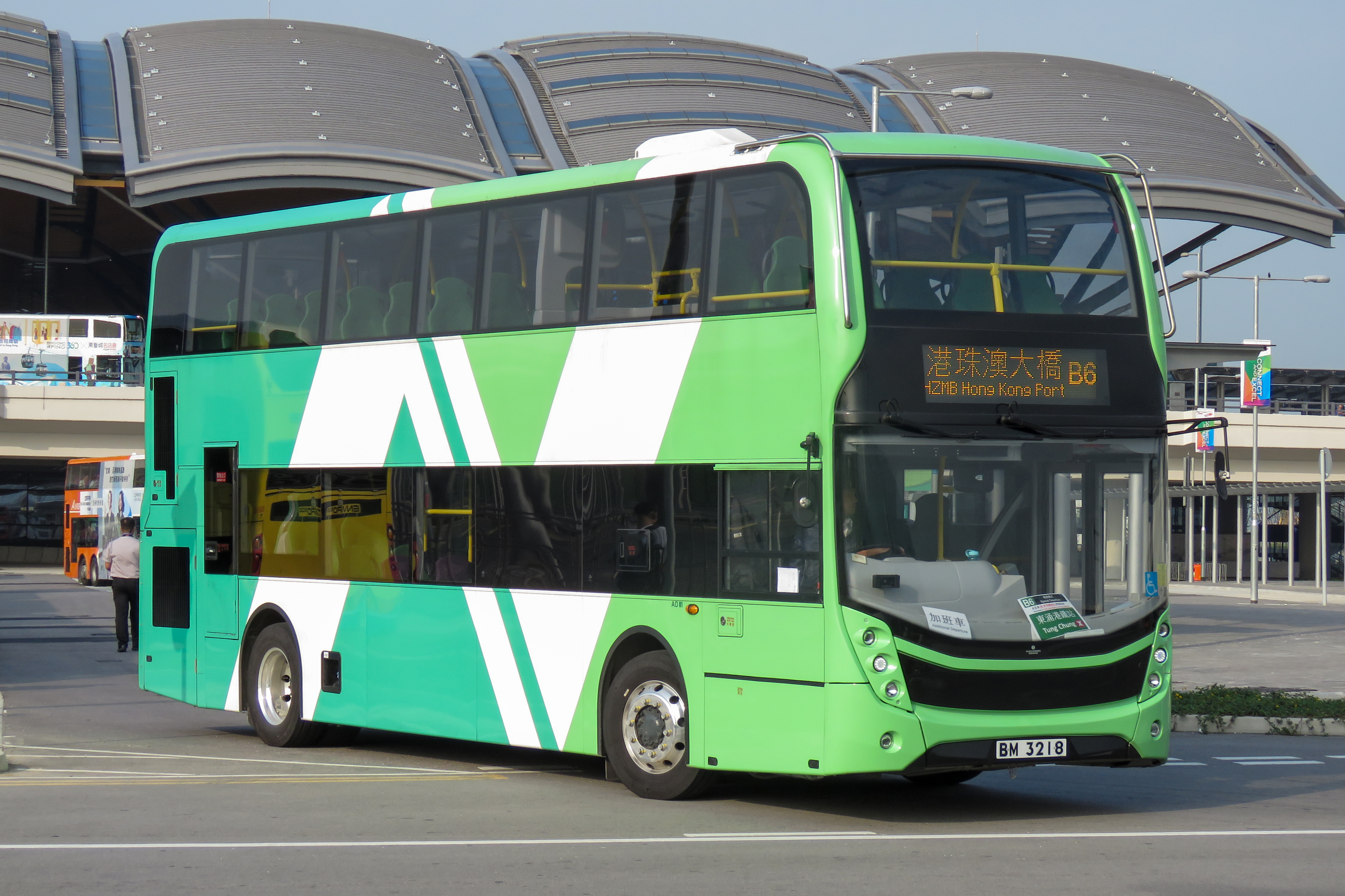 NLB's first E400 come out again, this time B6.